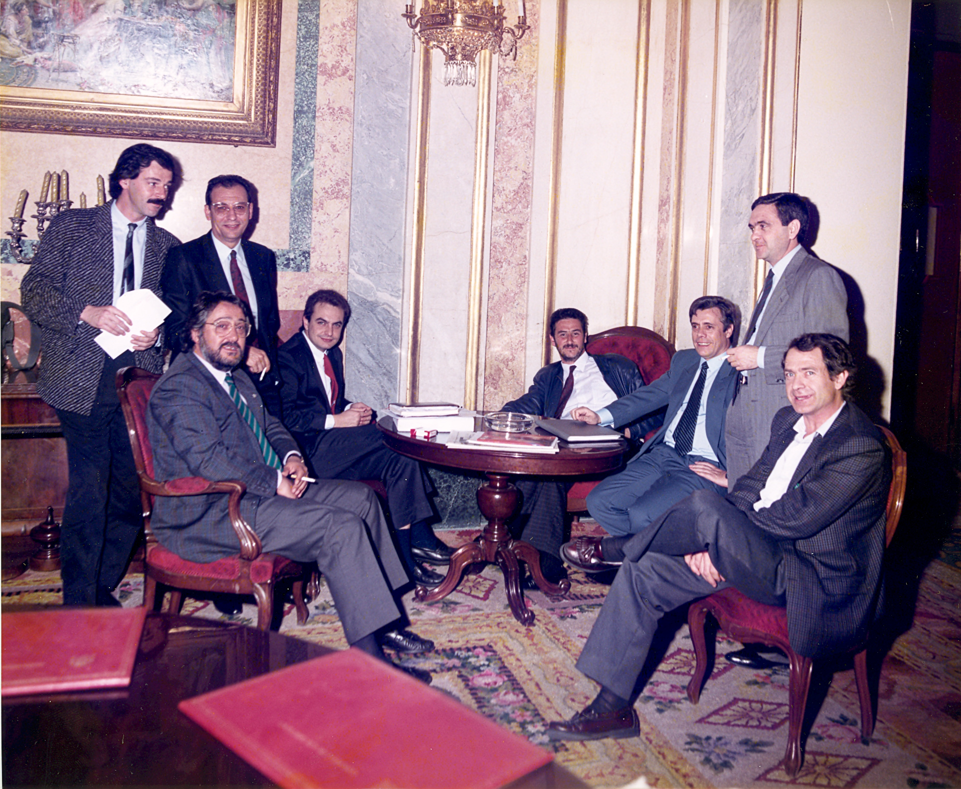 Congreso Diputados 10/05/88